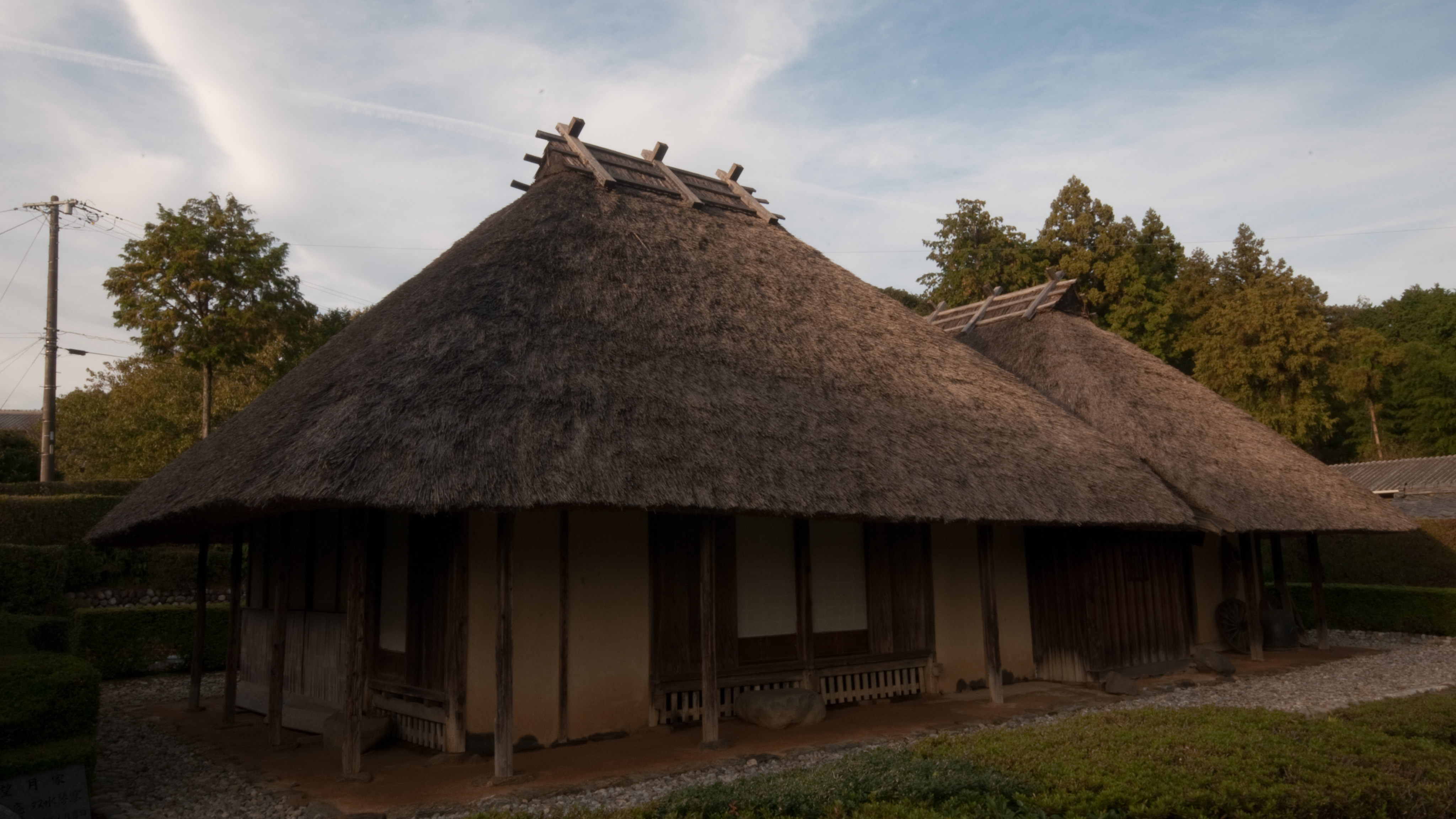 Exterior of the Mochiduki residence.